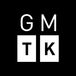 Square, black and white logo of Game Maker's Toolkit YouTube channel.